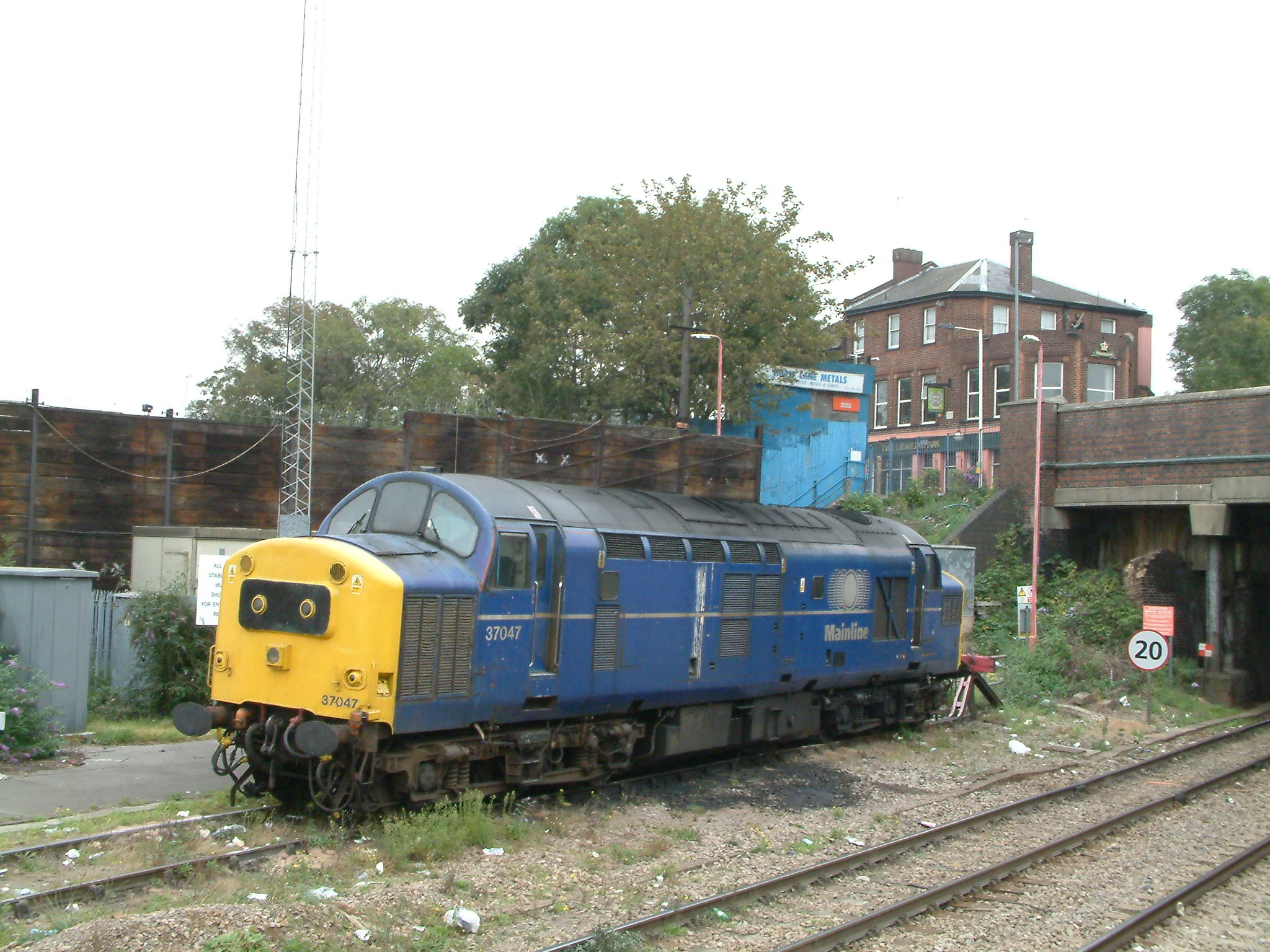 Locomotive 37047 in Mainline livery sitting at Acton Main Line